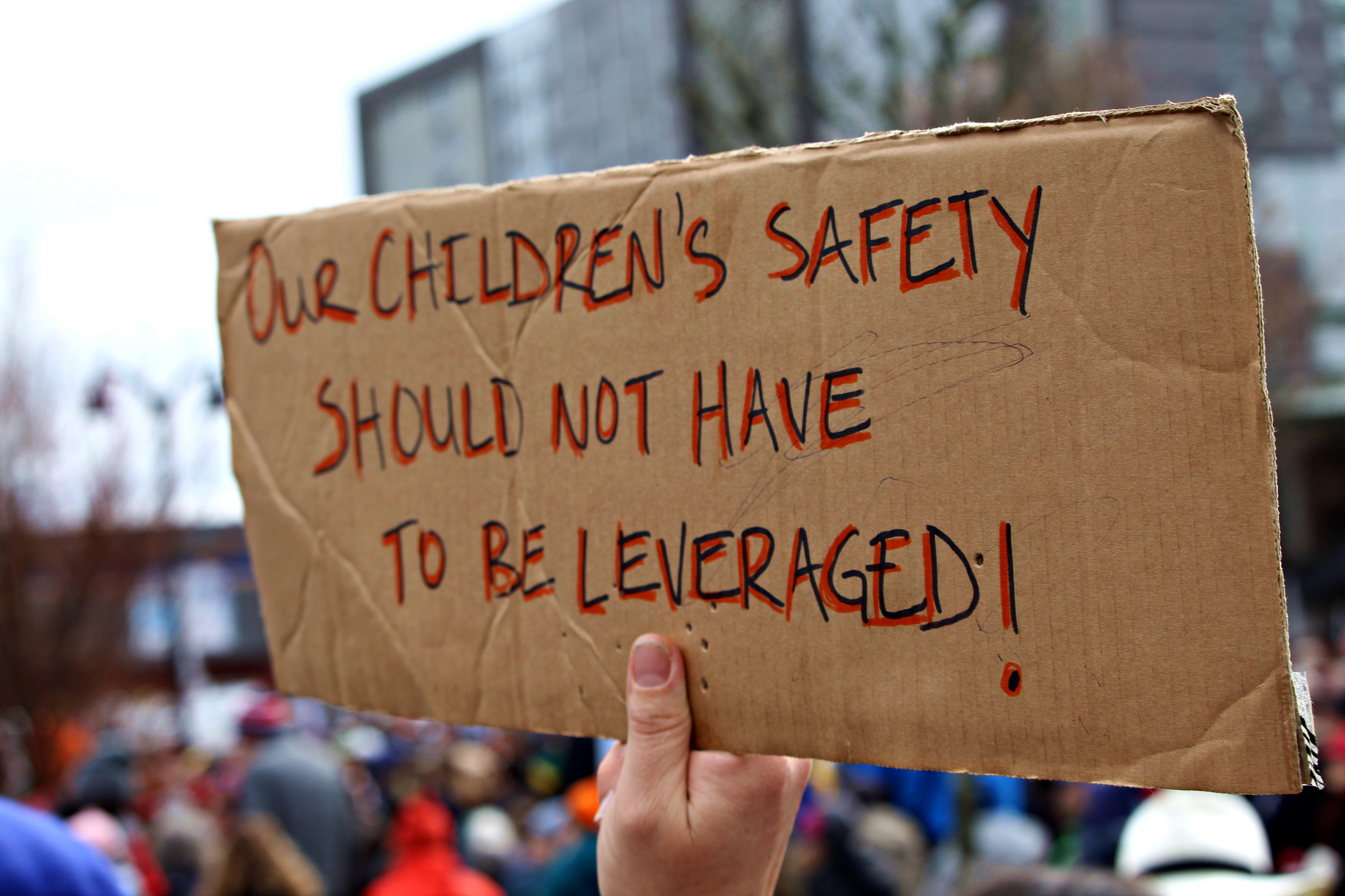 March for Our Lives on 24 March 2018 in Eugene, Oregon